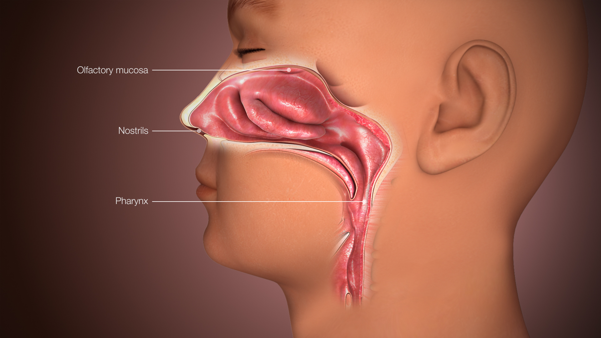 3D Medical Animation Still Shot Depicting Nose & its Basic Internal Structure.